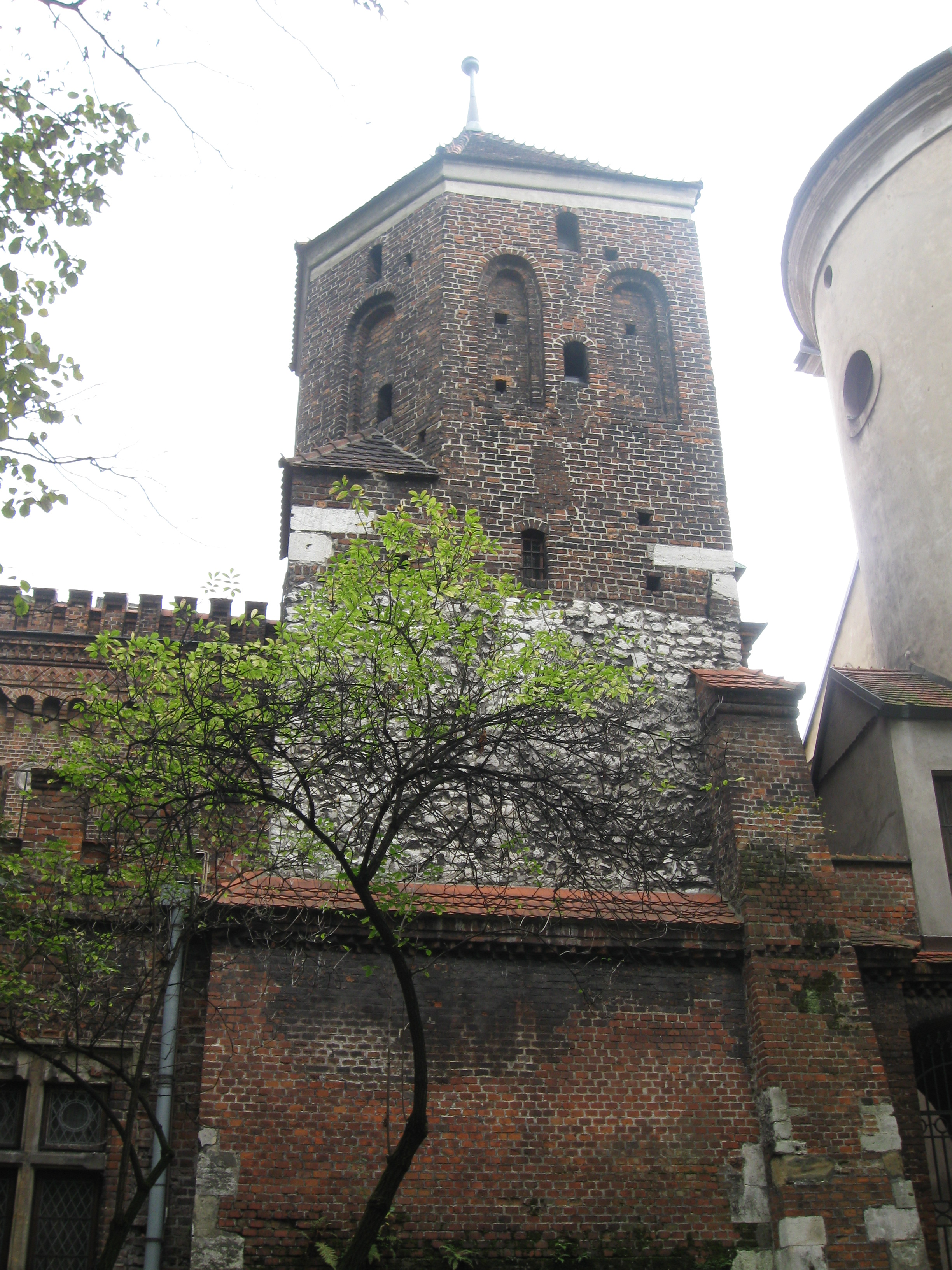 Joiner Tower in Cracow.